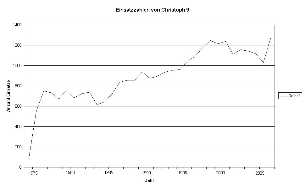 Development of the interventions of the Duisburg rescue helicopter "Christoph 9"